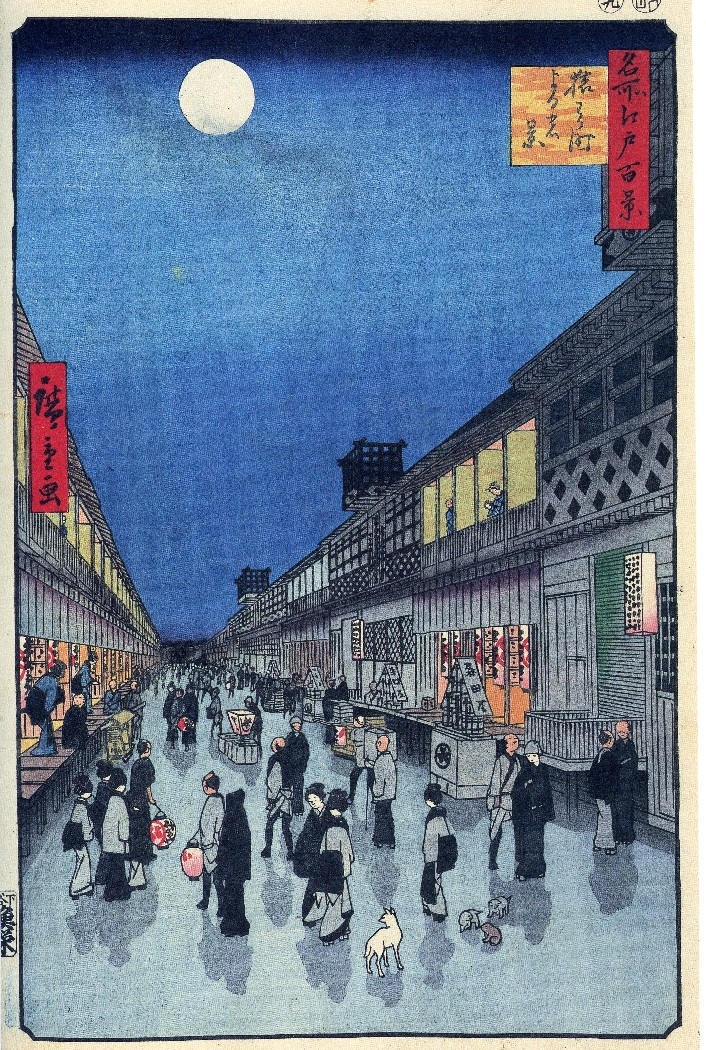 100 Views Of Edo - #90. Night View of Saruwaka-machi There are 3 Kabuki theaters by the right of the street. The town was named "Saruwaka-machi", from "Saruwaka Kanzaburo (Nakamura KanzaburoⅠ)". He is the founder of "Edo Kabuki".